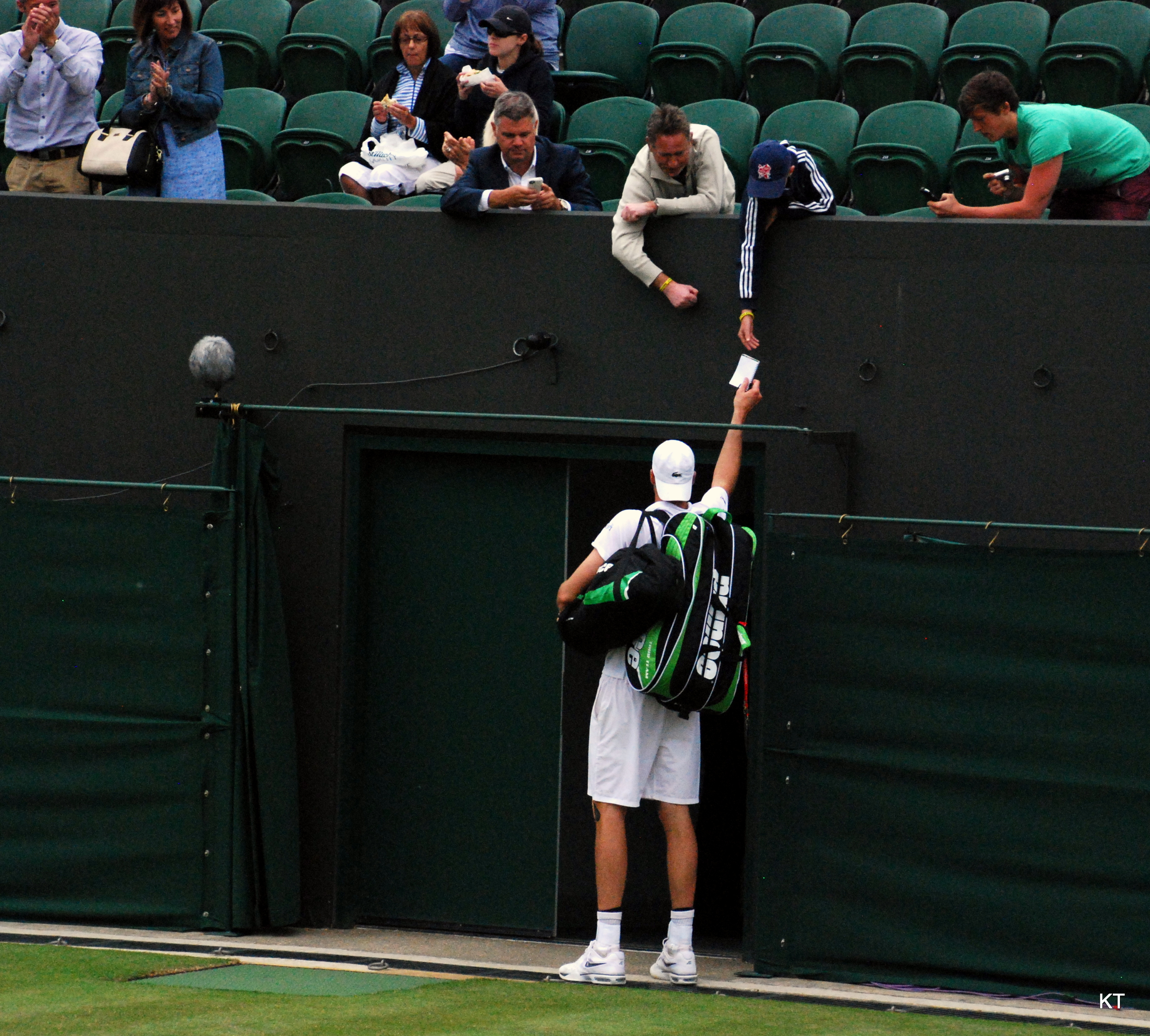 Height can be handy. Day 4 of Wimbledon 2014.